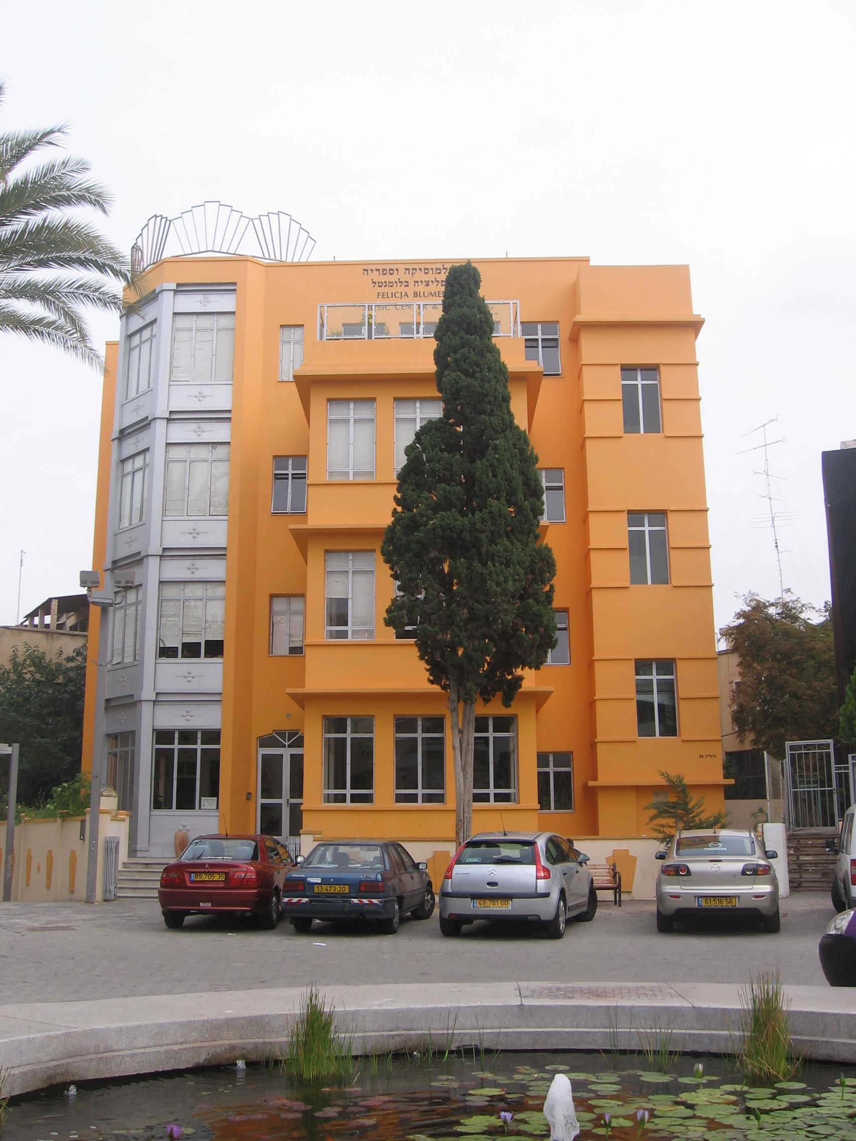 Felicja Blumental music centre and library in Tel Aviv.